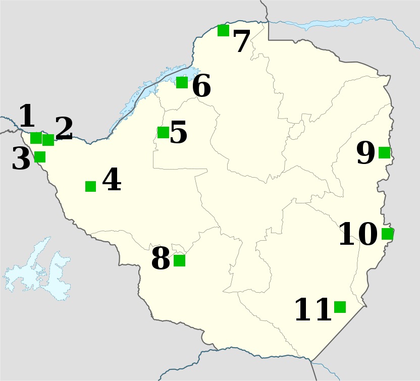 Location map for Zimbabwes National Parks:1. Zambezi2. Victoria Falls3. Kazuma Pan4. Hwange5. Chizarira6. Matusadona7. Mana Pools8. Matobo9. Nyanga10. Chimanimani11. Gonarezhou